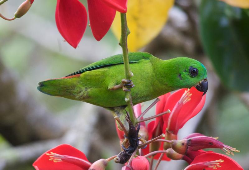 A female Blue-crowned Hanging Parrot in Tanglin Halt, Singapore.